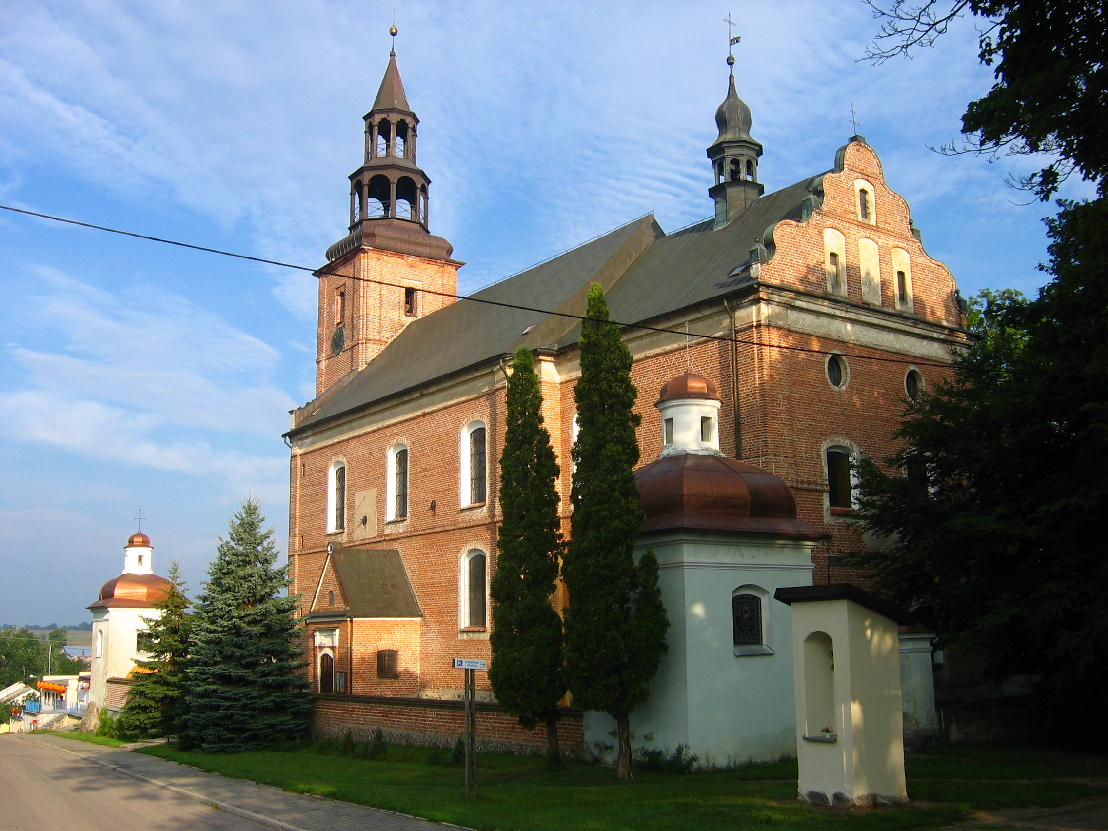 Church in Głotowo, Poland.